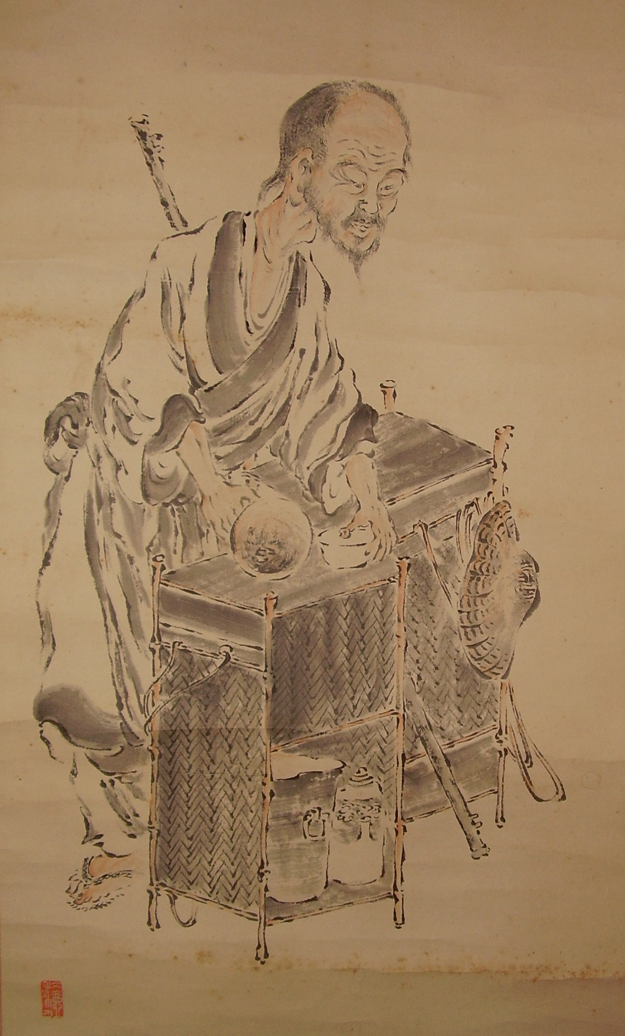 Detail of a painting of Baisao, done as a "gentle" caricature; ink & colours on paper; late 19th to early 20th century. Complete painting includes calligraphy/inscription, also sealed & possibly signed. The inscription is possibly a poem by Baisao. Artist(s) not identified, research needed. Private collection, fam. Wittig et cie.; painting - 10